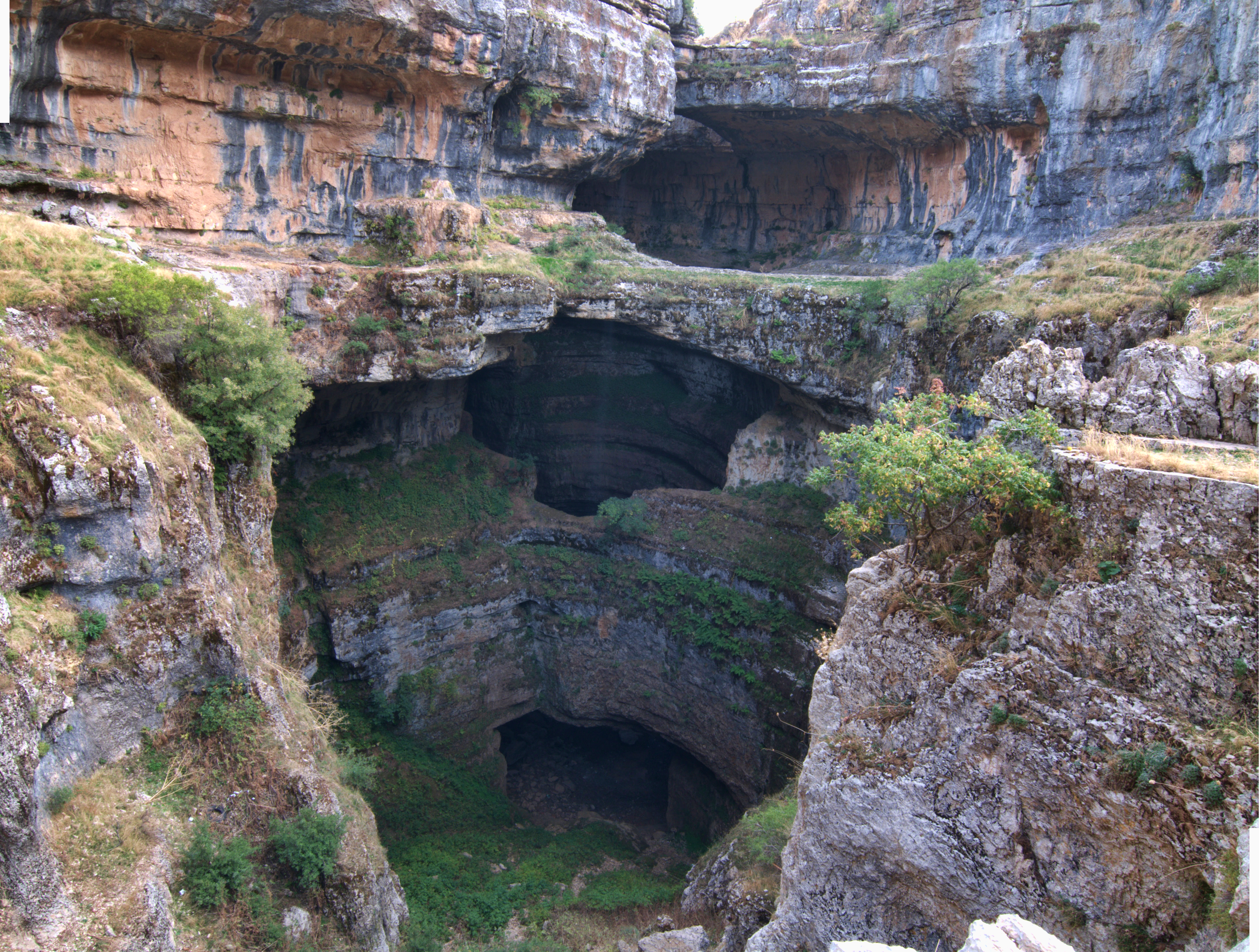 Pano of two shots. the pit is very deep, my wide angle couldn't take it all in one shot